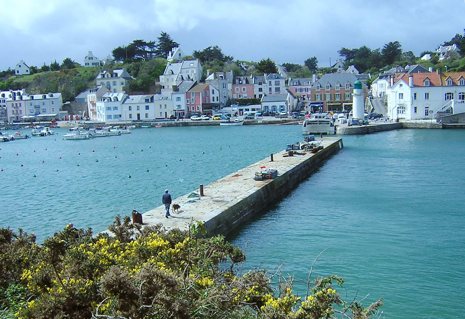 Description =Port de Sauzon Source =Photo taken by Remi Jouan Date =Avril 2004 Author =Remi Jouan